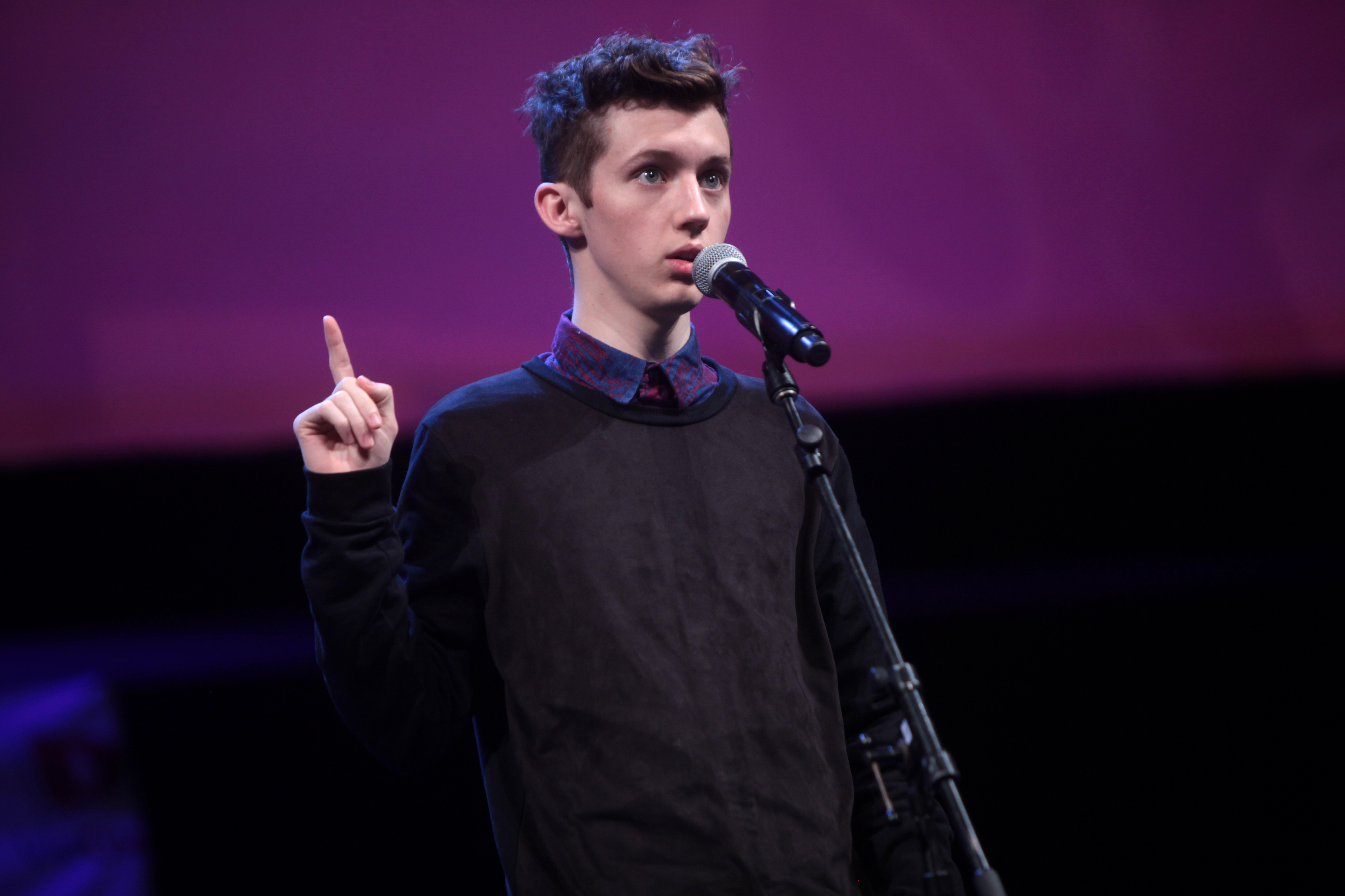 Troye Sivan speaking at the 2014 VidCon at the Anaheim Convention Center in Anaheim, California.